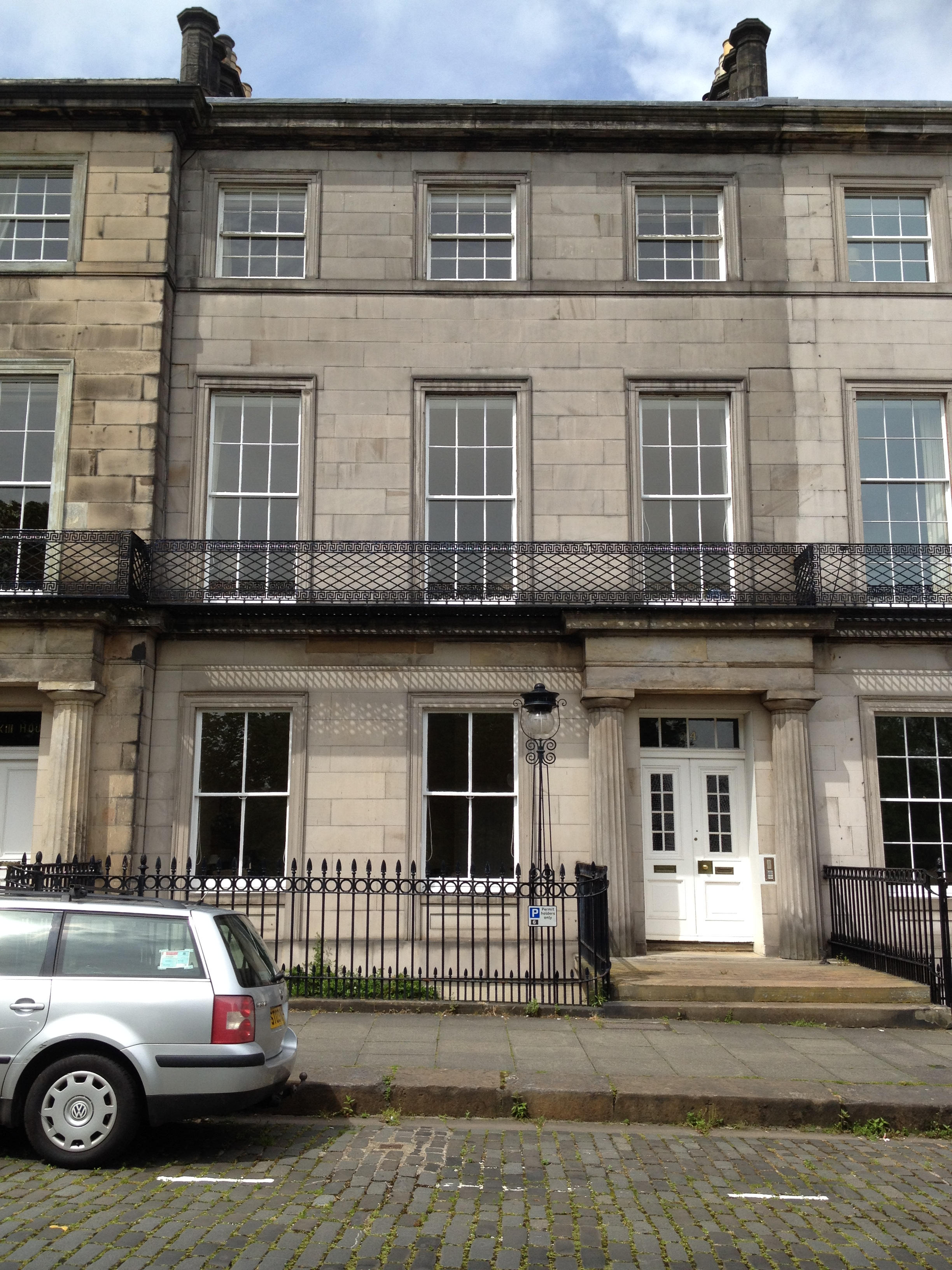 Front of 24 Regent Terrace, Edinburgh Wikidata has entry Q17570301 with data related to this item.